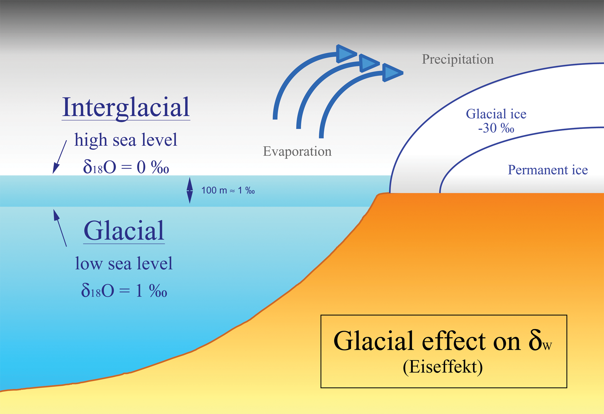 Glacial effect (after Shackleton): The ratio of stable oxygen isotopes 16O/18O in the oceans is changed by the build up of ice sheets on the continents during glacials due to fractionated evaporation and precipitation in high latitudes. A global change in sea level of about 100 m between glacials and interglacials generates a difference of 1 per mil. The variations in the isotope ratio are archived in carbonaceous plankton shells and can be used to date quaternary sediments and reconstruct paleoclimate.